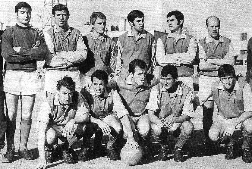 Arsenal squad for the 1968 season